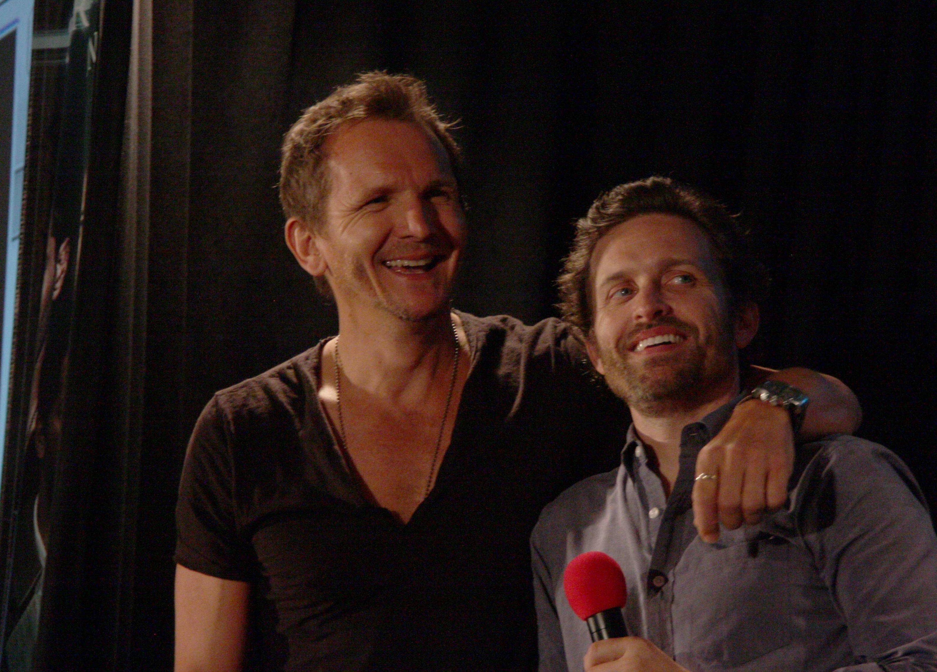 Sebastian Roché at the Supernatural Convention in Arlington, Virginia, May 3, 2014